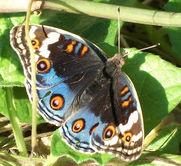 Junonia orithya madagascariensis, Ilanda Wilds, South Africa.